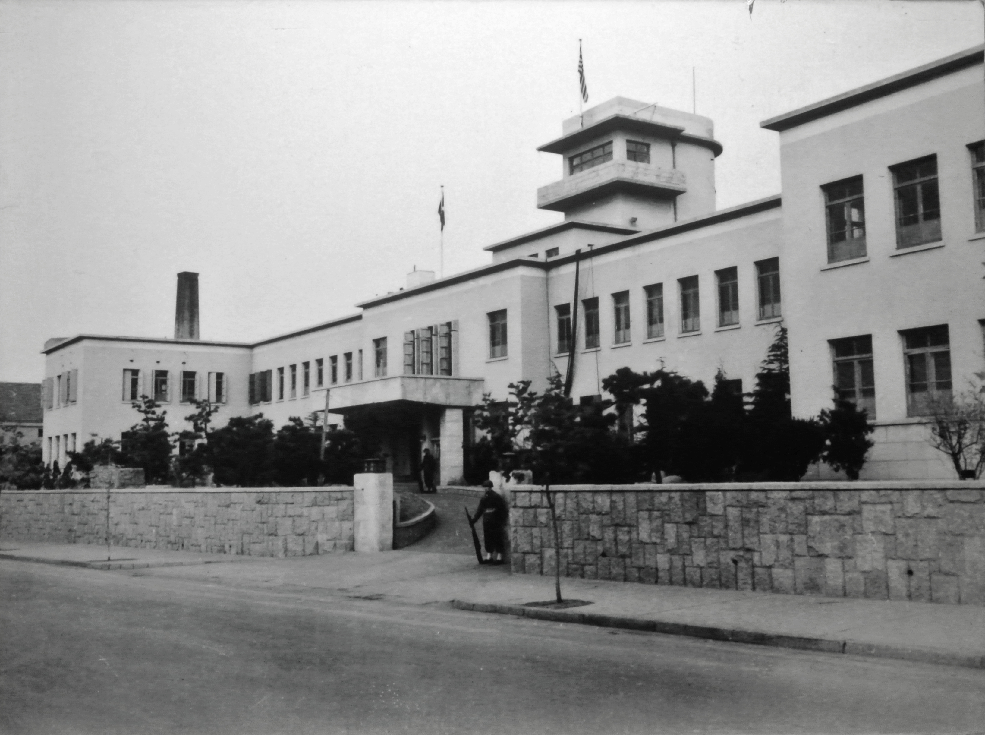 Headquarter of US Seventh Fleet in Qingdao, former site of Japanese naval headquarter